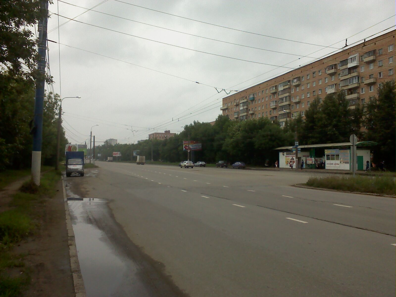 View on the roadway of the 9 January street in Izhevsk, Russia